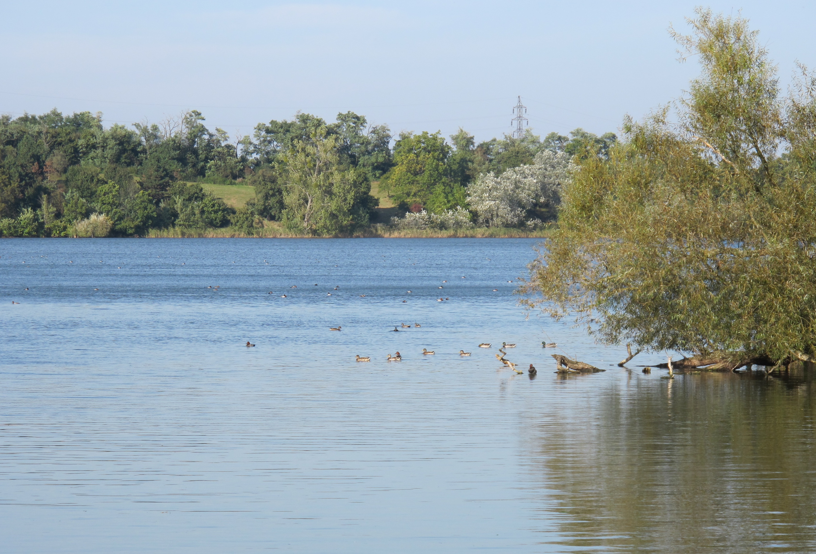 Mlýnský rybník pond in natural nature reserve Lednické rybníky, Břeclav District